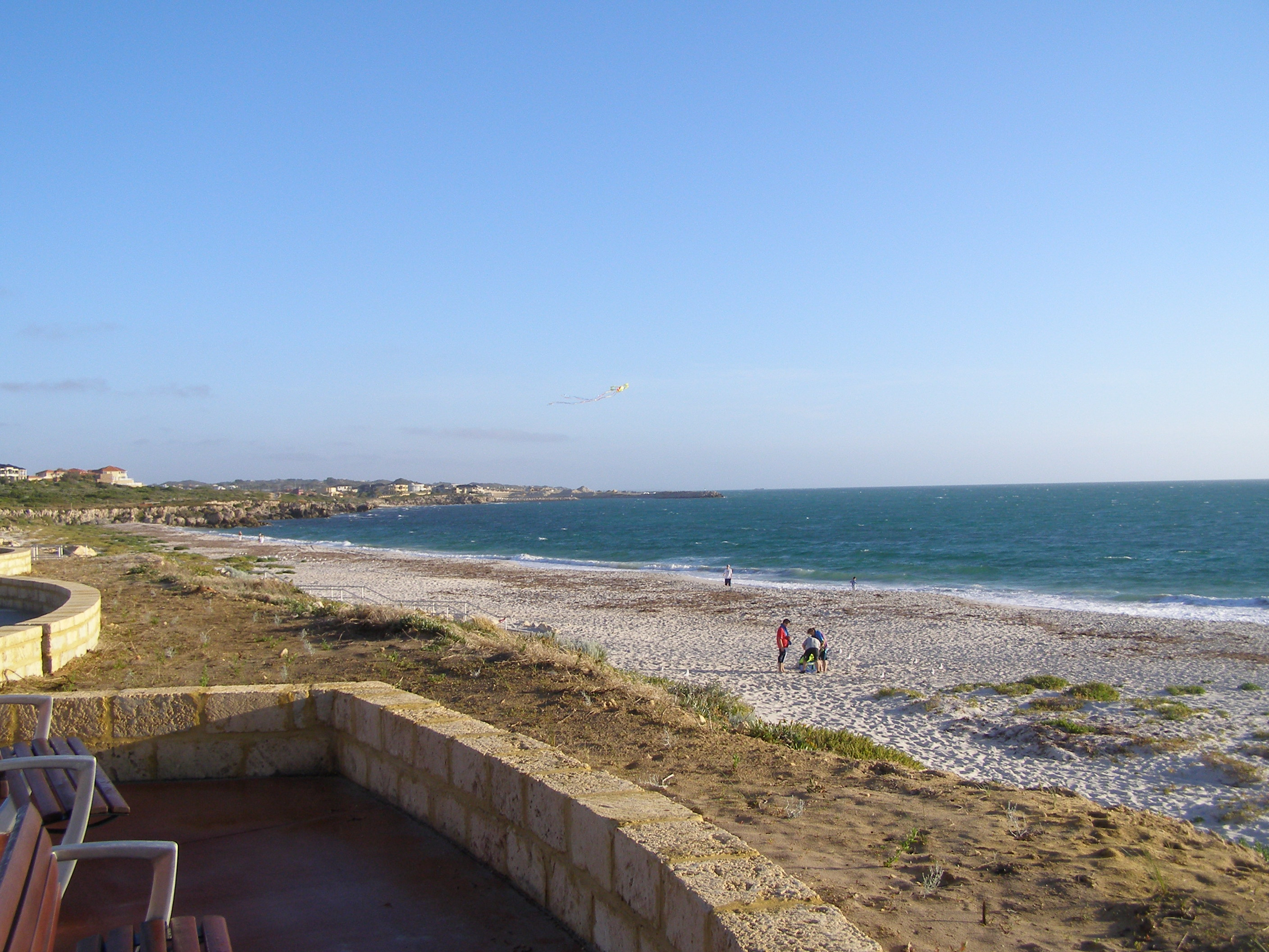 Quinns Beach, Perth, Western Australia